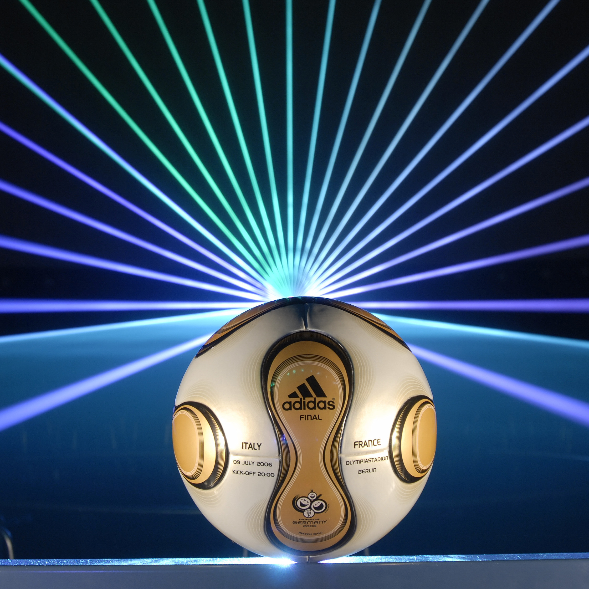 +Teamgeist Berlin matchball as it was used for the Final of the FIFA Worldcup 2006.